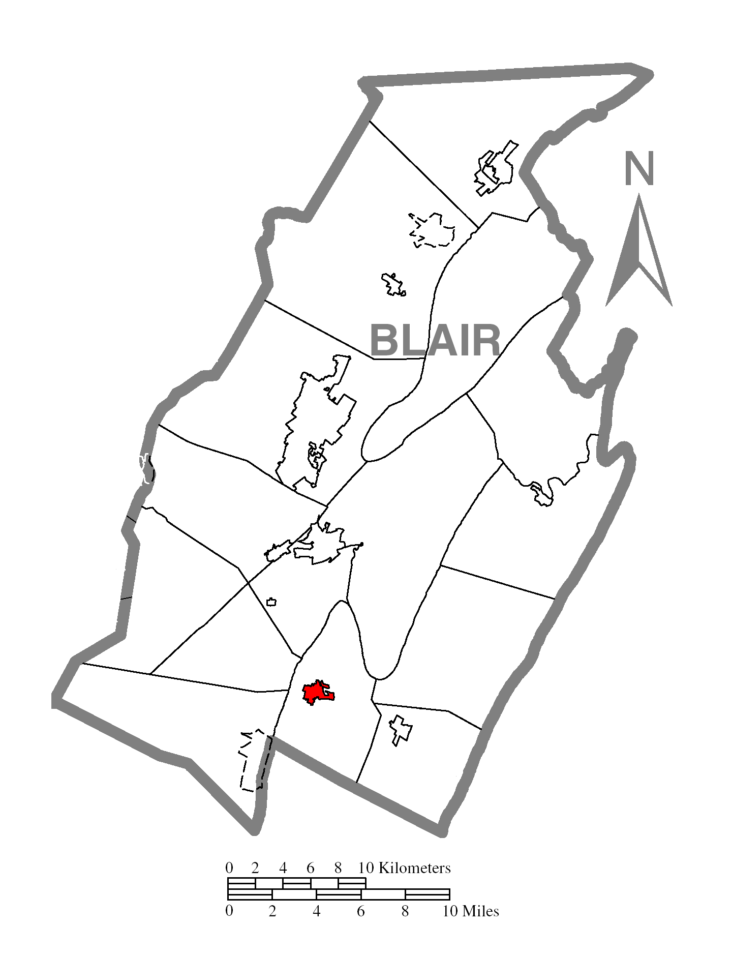 A map of Blair County showing Roaring Spring, Pennsylvania (alternate) highlighted on the map.